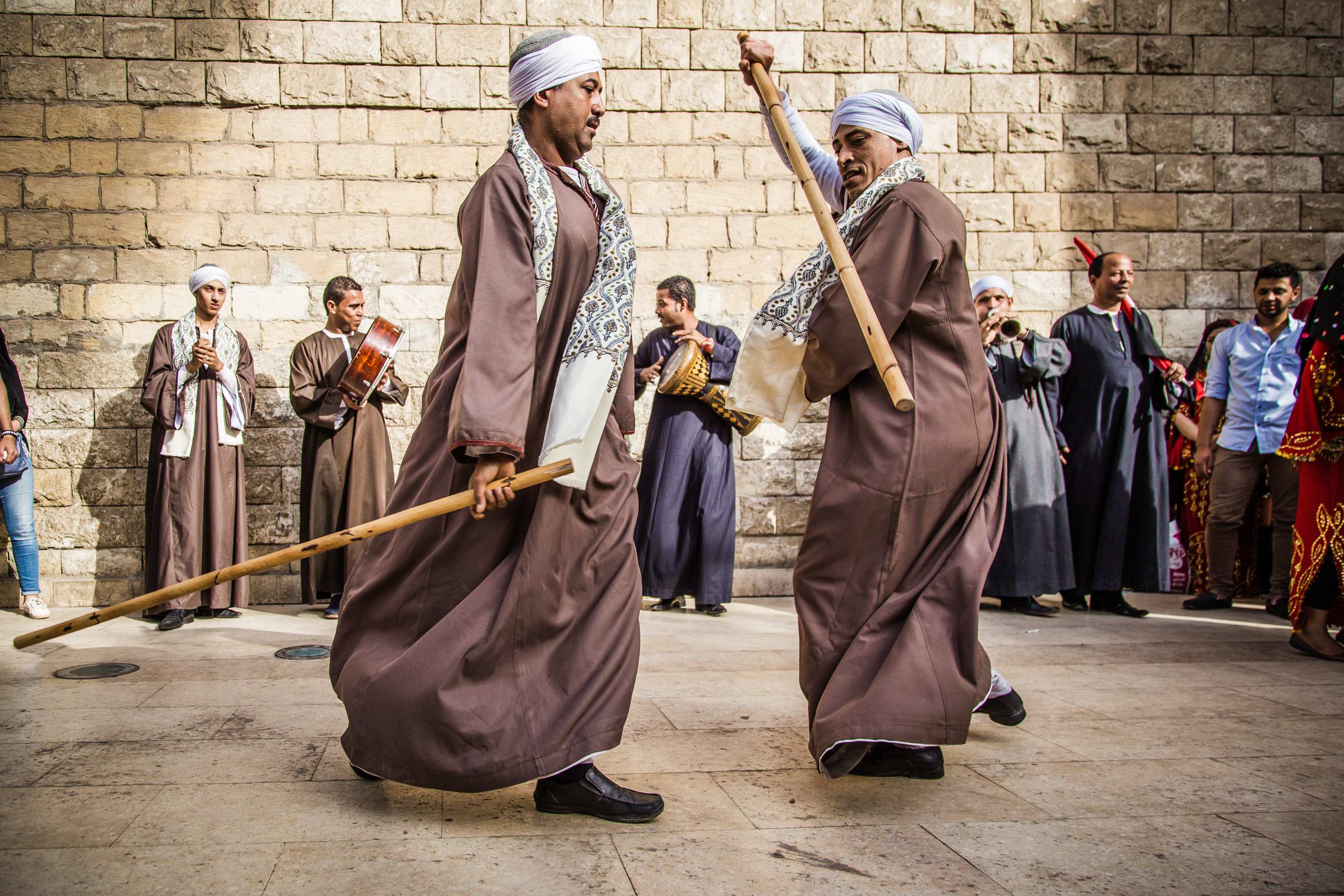 Tahtib is the term for a traditional stick-fighting martial art, The original martial version of Tahtib later evolved into an Egyptian folk dance with a wooden stick This is an image with the theme "Play" from: Egypt